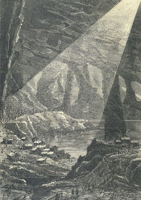 An illustration from the novel "The Child of the Cavern" (alternative English titles for this novel include: Black Diamonds, Black Indies, Child of the Cavern, or Strange Doings Underground and The Underground City) by Jules Verne drawn by Jules Férat.